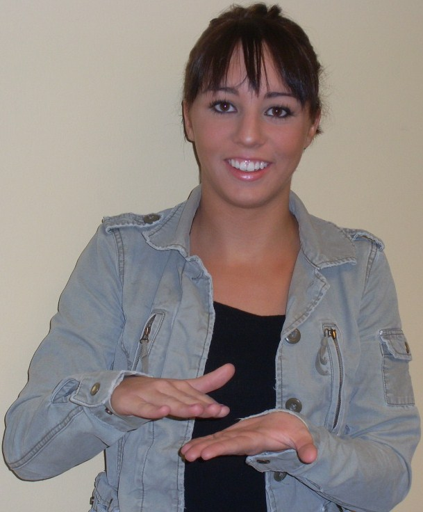 The final posture of the ASL sign NICE (OpenB@BasePalm-PalmDown-OpenB@CenterChesthigh-PalmUp OpenB@Finger-PalmDown-OpenB@CenterChesthigh-PalmUp)